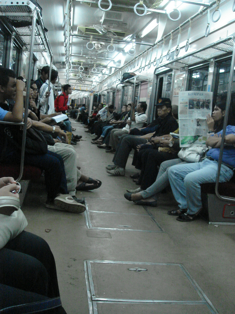 The situation inside the electric commuter train at Jakarta